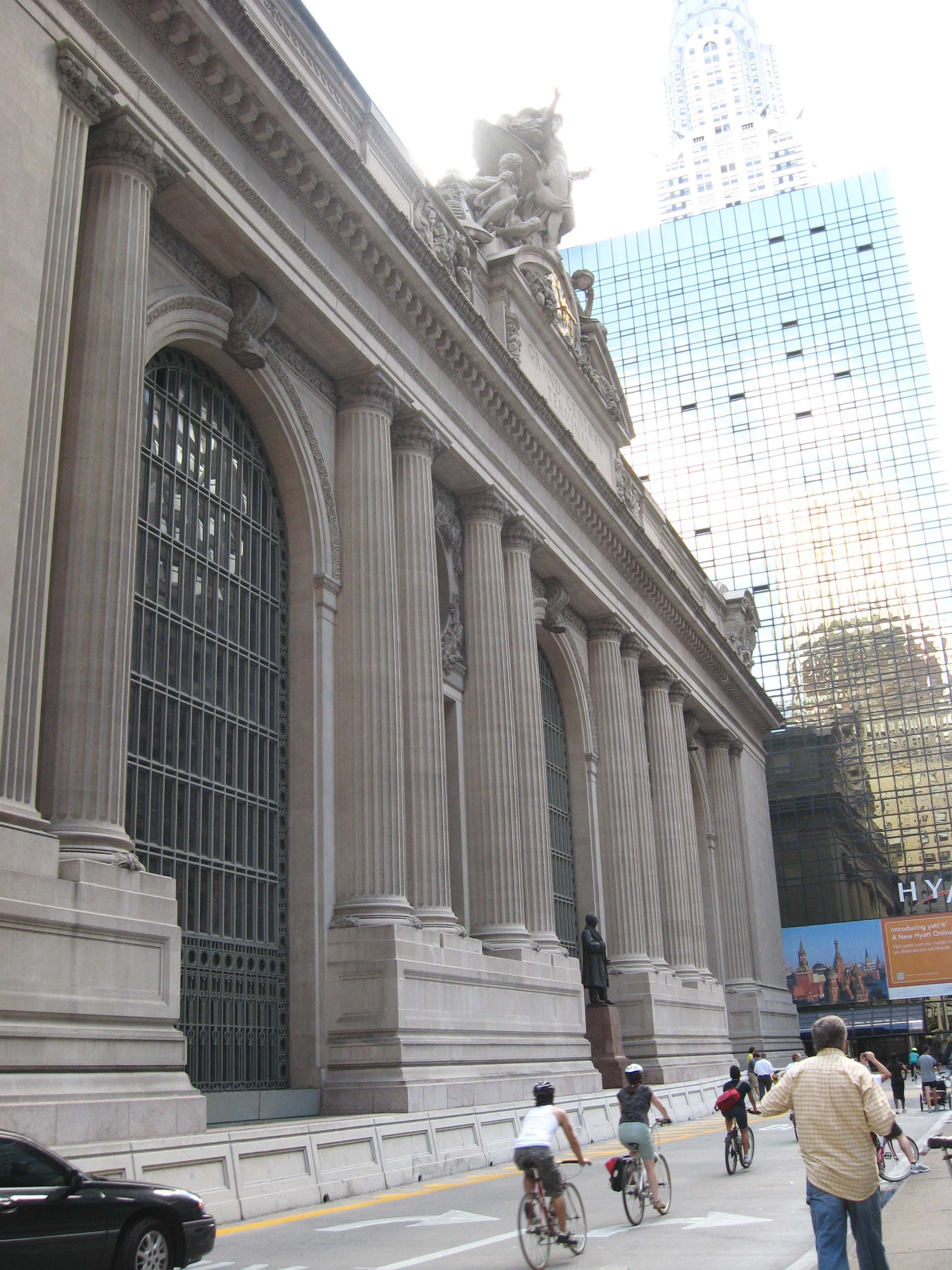 Looking east along south colonnade of Grand Central Terminal on a sunny late morning